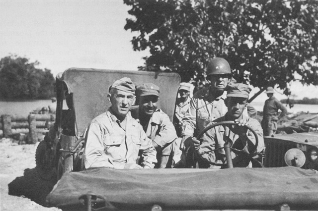 Senior American commanders on an inspection tour of Los Negros Island: Lieutenant General Walter Krueger, Brigadier General William C. Chase, Major General Innis P. Swift.